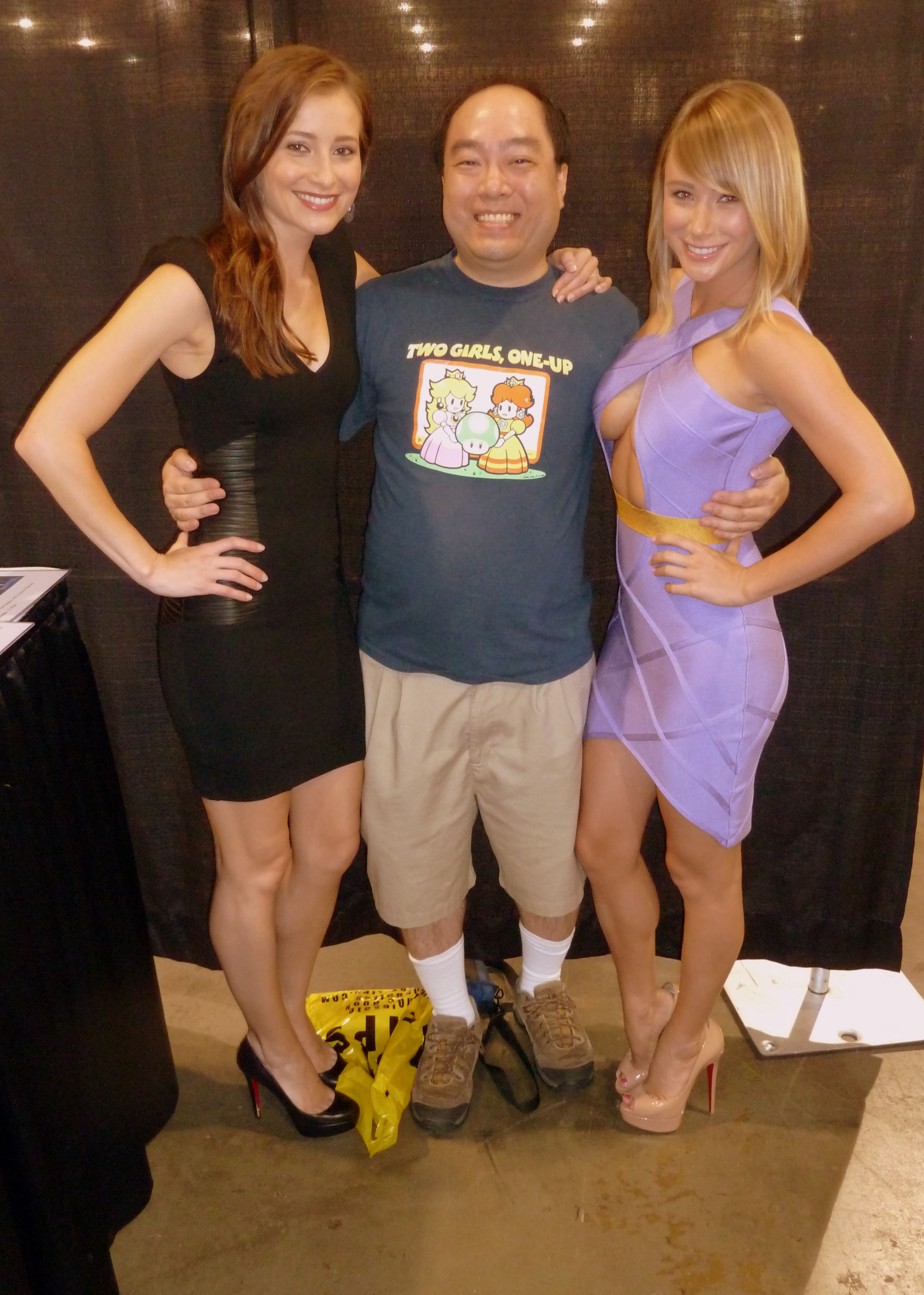 G4's Candace Bailey and Sara Jean Underwood with some lucky sap. Two Girls, One Up indeed.